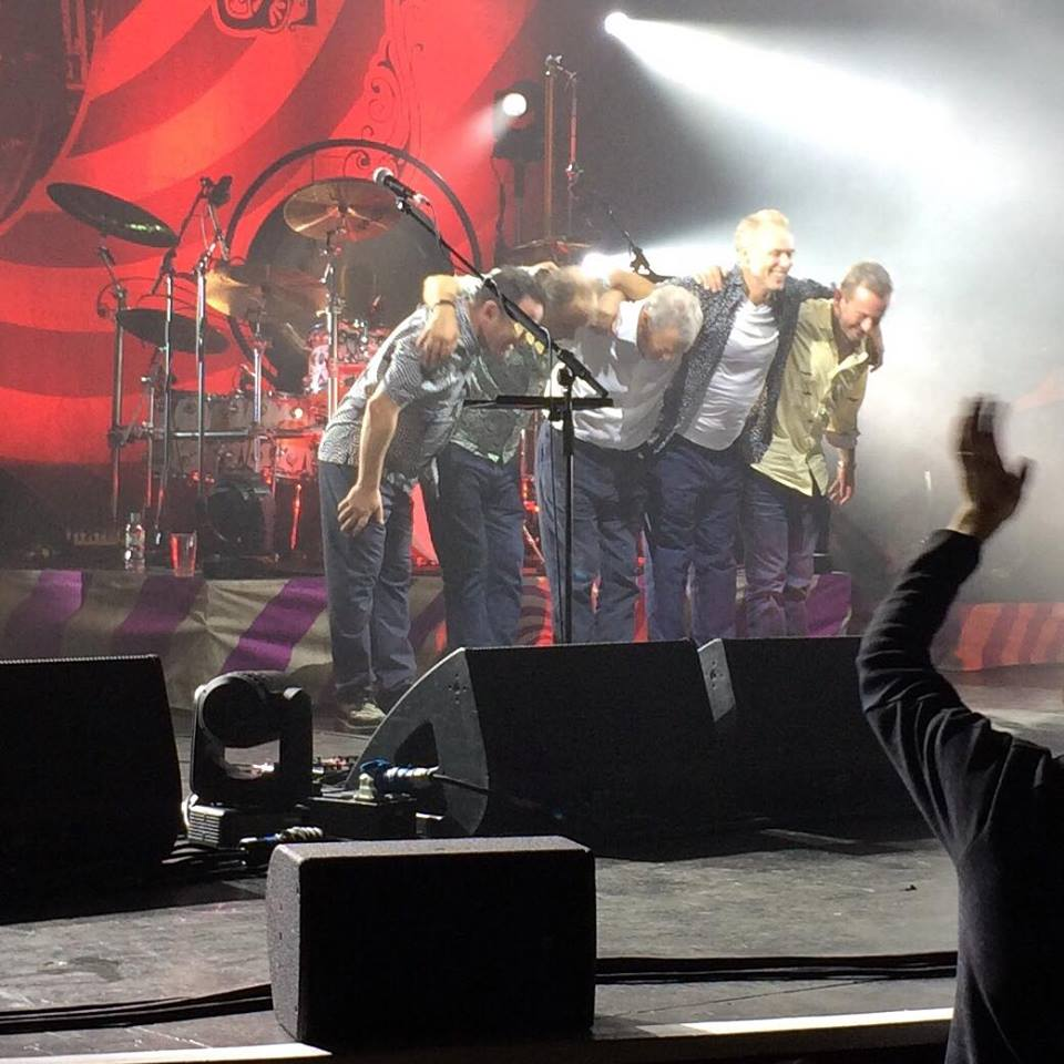 Nick Mason's Saucerful of Secrets bowing after a show in Manchester, 2018